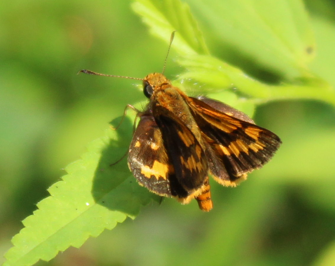 A Chinese dart spotted in the paddyfields of Mangalore